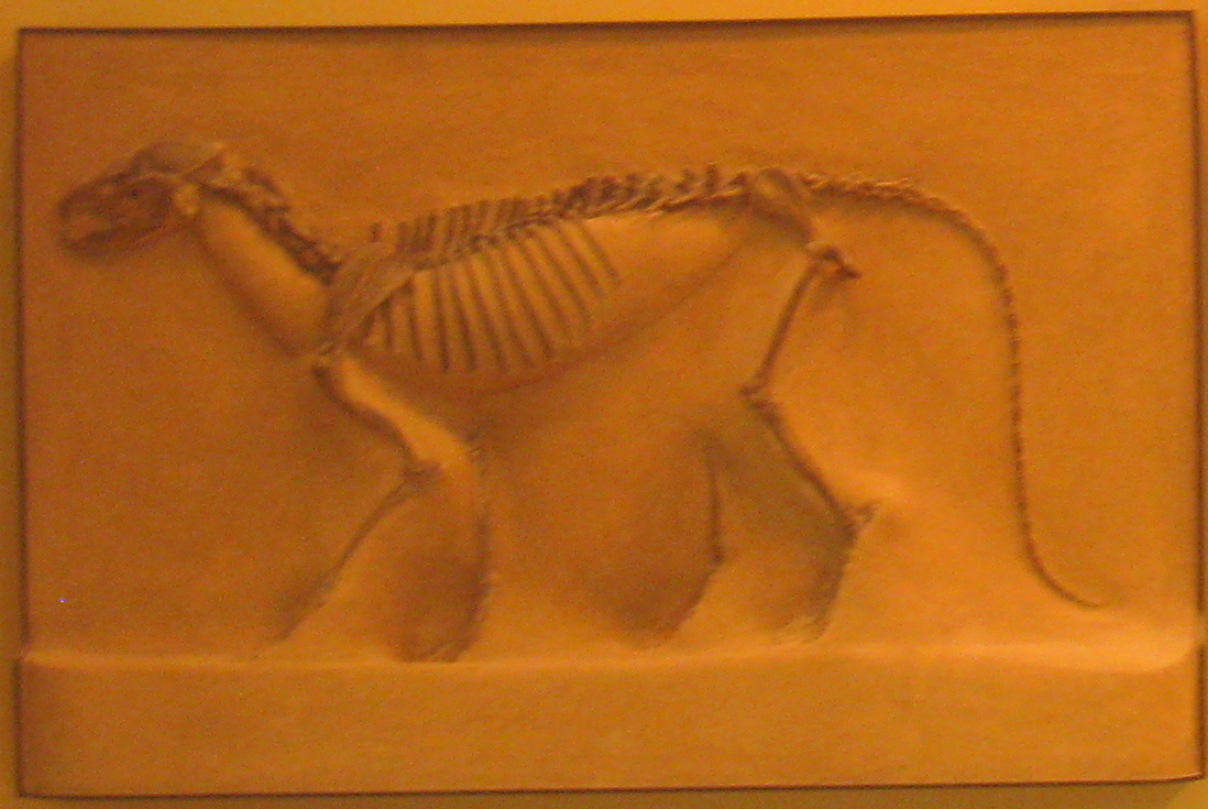 Cropped image of taxon in file name